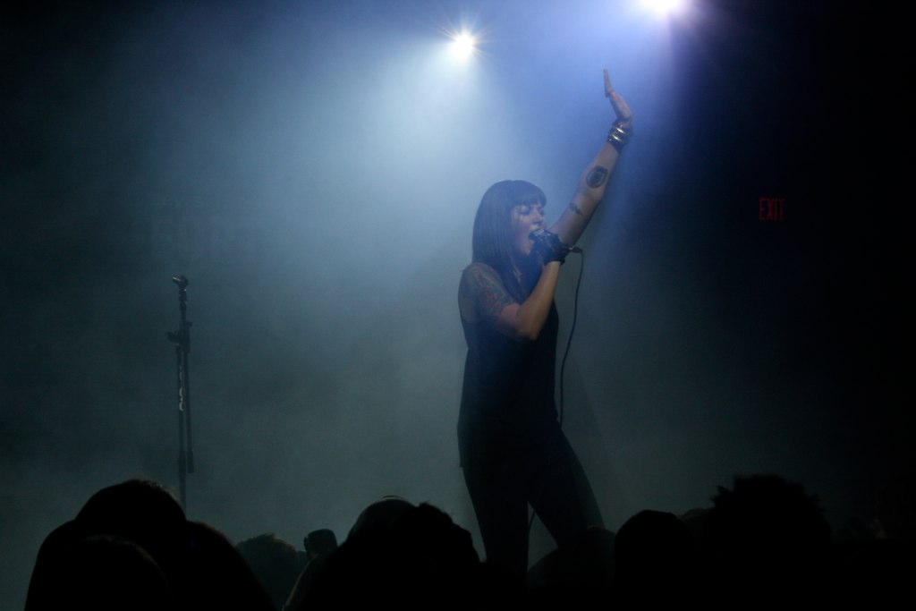 Alexis Krauss, singer for the dancepop duo Sleigh Bells, performing at Levis Fader Fort in Austin, Texas, USA, as part of the South By Southwest Music Festival on March 20, 2010.